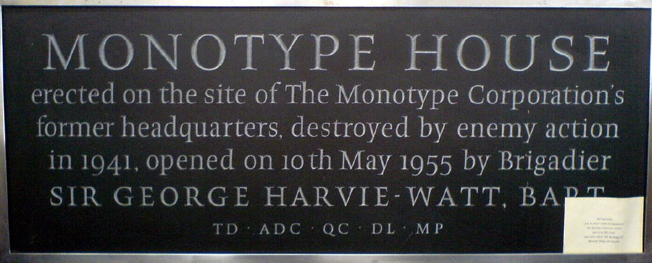 The Monotype company does not create metal types any longer, that side of the business having been asset stripped out of existance back in the 80's. The role of keeping the art of metal typeset creation and supply of Monotype fonts has been taken over by the Type Museum.